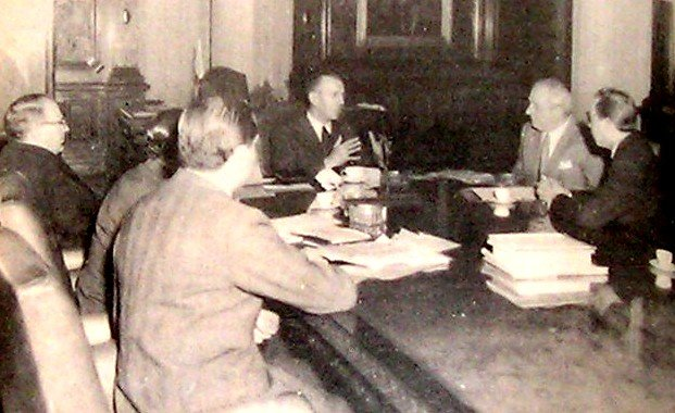 Argentina. Trade unionist meet officials from militar government 1955. In the picture are at the left side, Luis Cerrutti Costa (Labor Minister); at the center, militar president general Eduardo Lonardi; at the right side, Luis Natalini and Andrés Framini, leaders from the national federation, CGT.